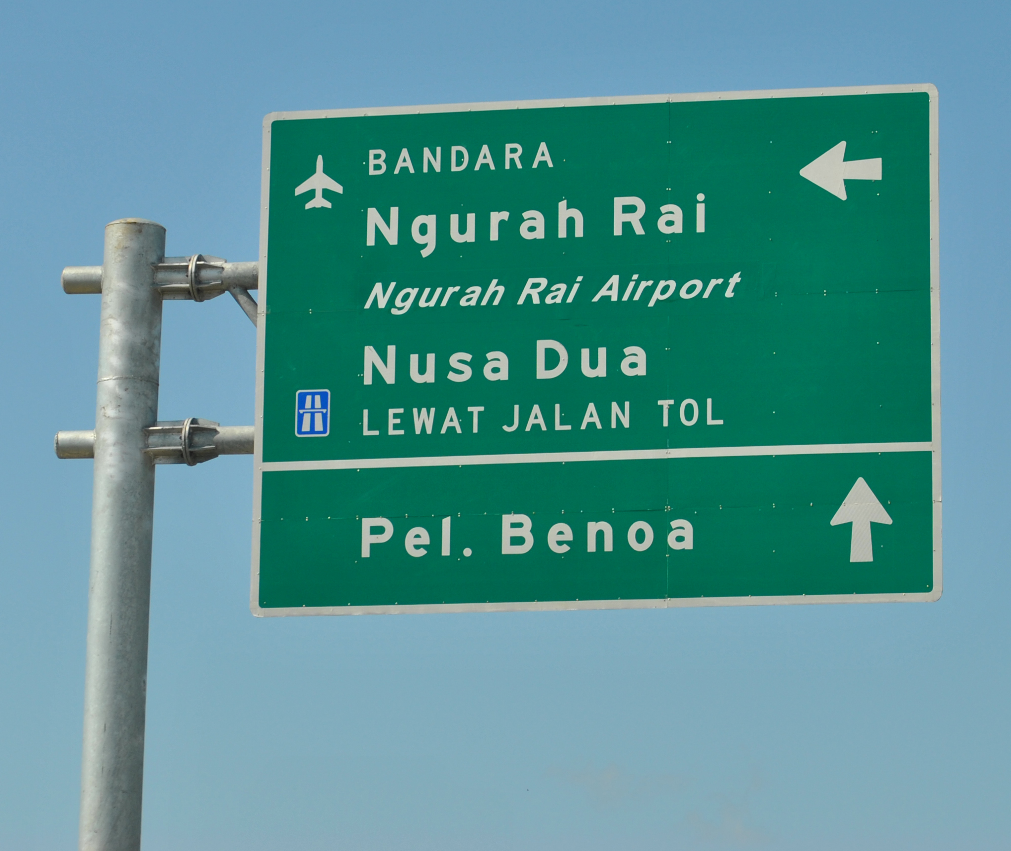 Ordinary signage leading to a tollway in Benoa, Bali. This heading to Benoa Harbour, not Sanur which featured on my previous photo, and typeface of Ngurah Rai Airport changed to Arial